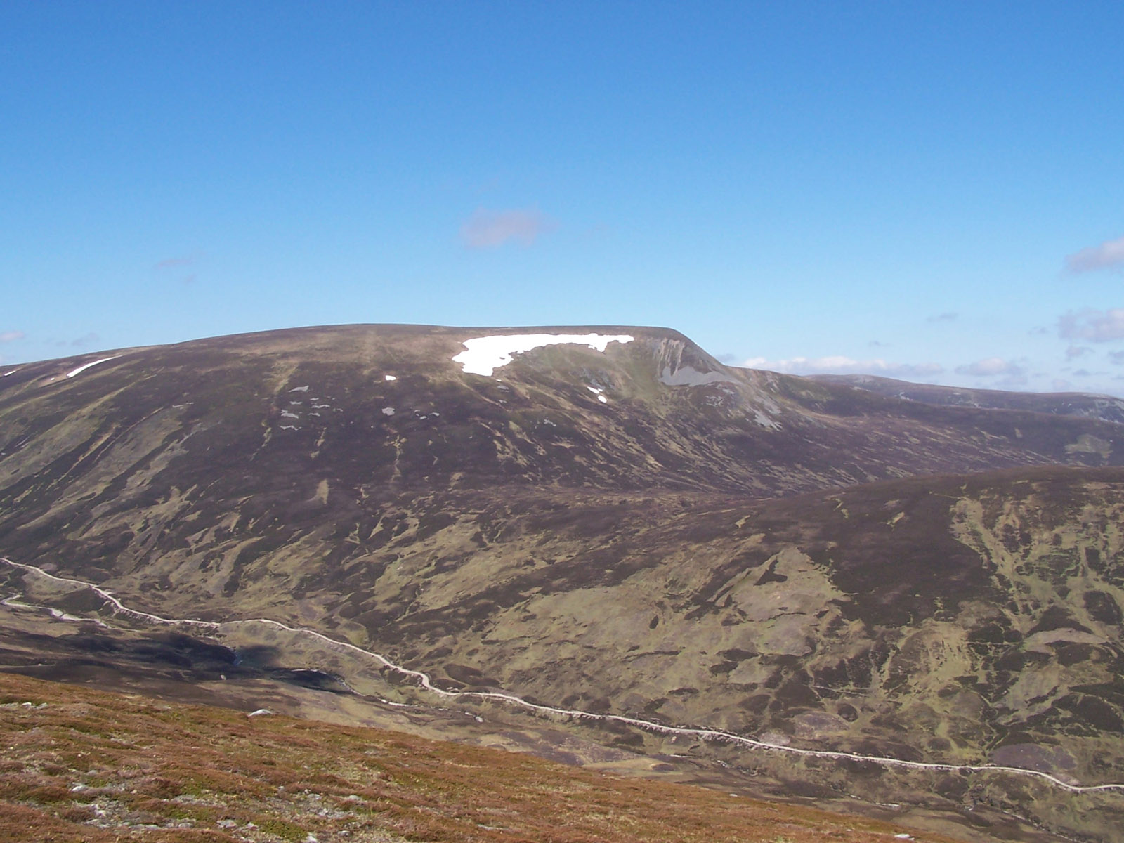 The Scottish mountain A' Mharconaich from the south across Coire Dhomhain. The land rover track up the coire is clearly in view.